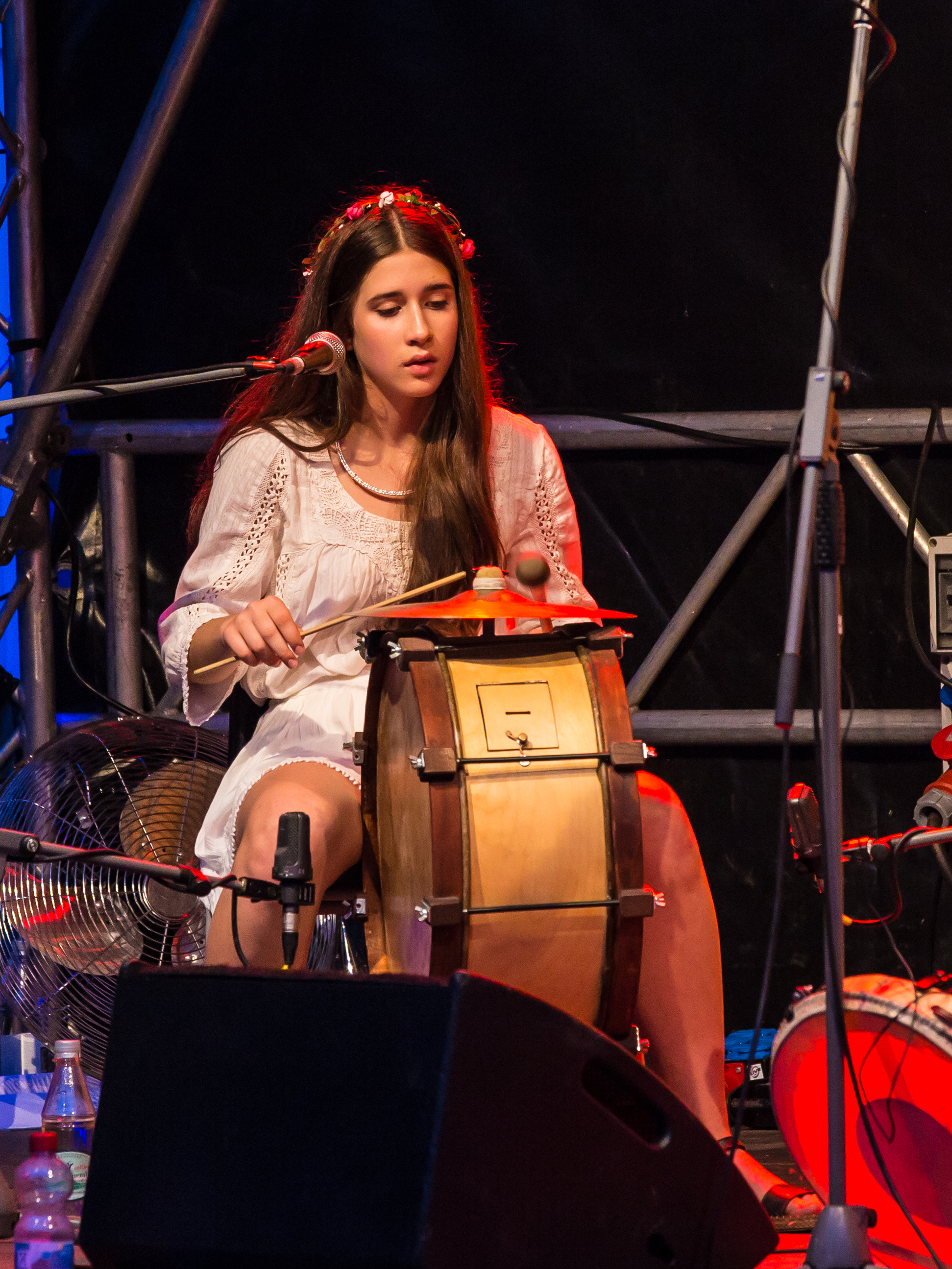 Polish folk band Kapela Maliszów at the Rudolstadt Festival 2016